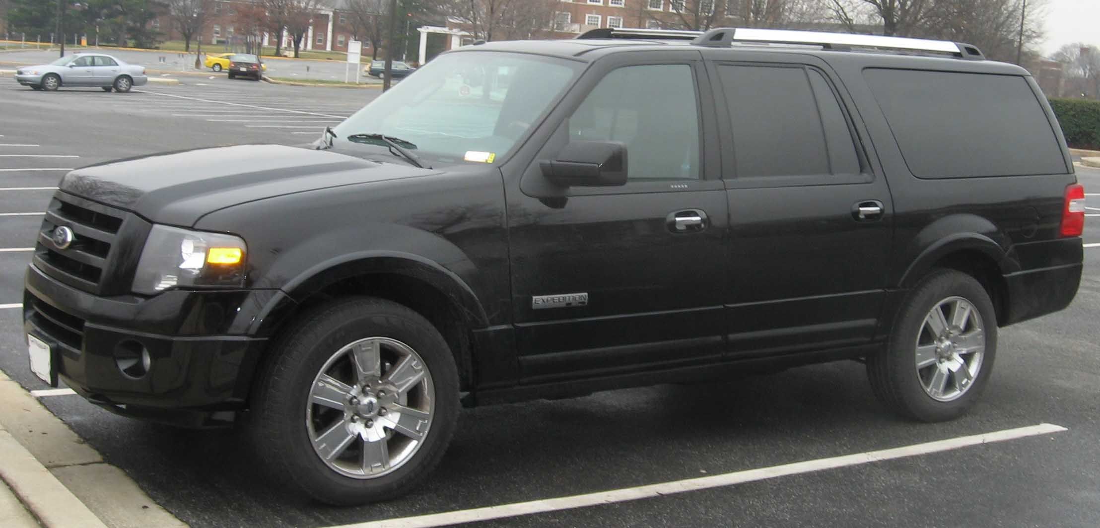 2007-2008 Ford Expedition photographed in College Park, Maryland, USA.